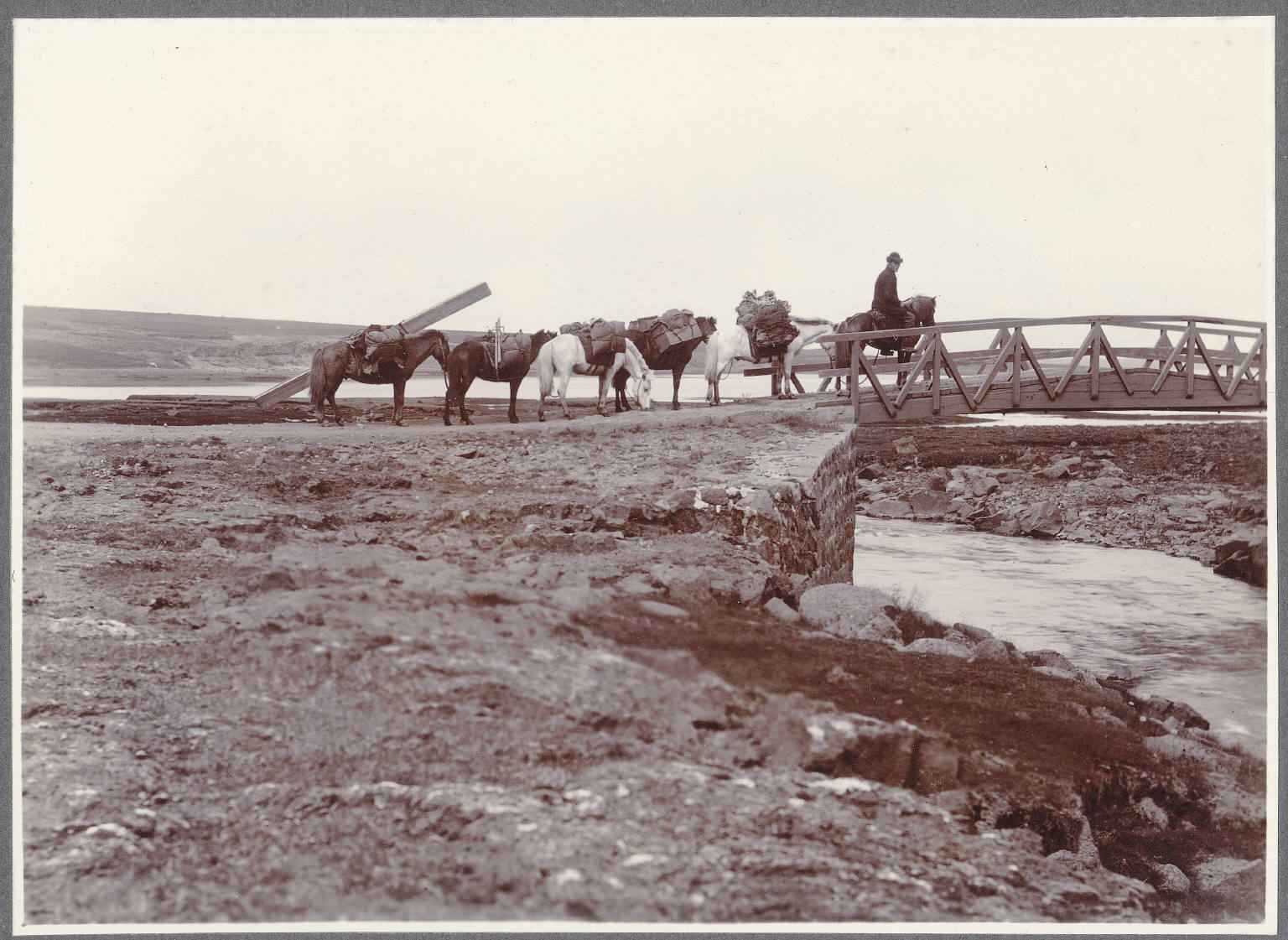 Collection: Icelandic and Faroese Photographs of Frederick W.W. Howell, Cornell University Library Title: An Icelandic pack train. Date: ca. 1900 Place: Elliðaá (Iceland) Medium: collodion print Repository: Fiske Icelandic Collection, Rare & Manuscript Collections, Cornell University Library Accession: 1923.3.11 Description: An Icelandic pack train crossing the bridge over Elliðaá, near Reykjavík. URL: Persistent URI: There are no known U.S. copyright restrictions on this image. The digital file is owned by the Cornell Univeristy Library which is making it freely available with the request that, when possible, the Library be credited as its source. We had some help with the geocoding from Web Services by Yahoo!